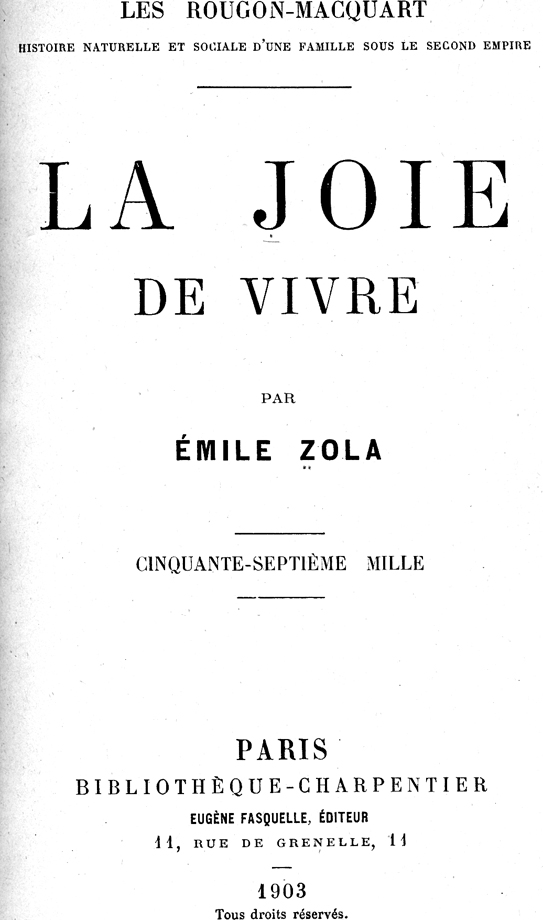 The Joy of Living (1884) by Émile Zola (1840-1902)